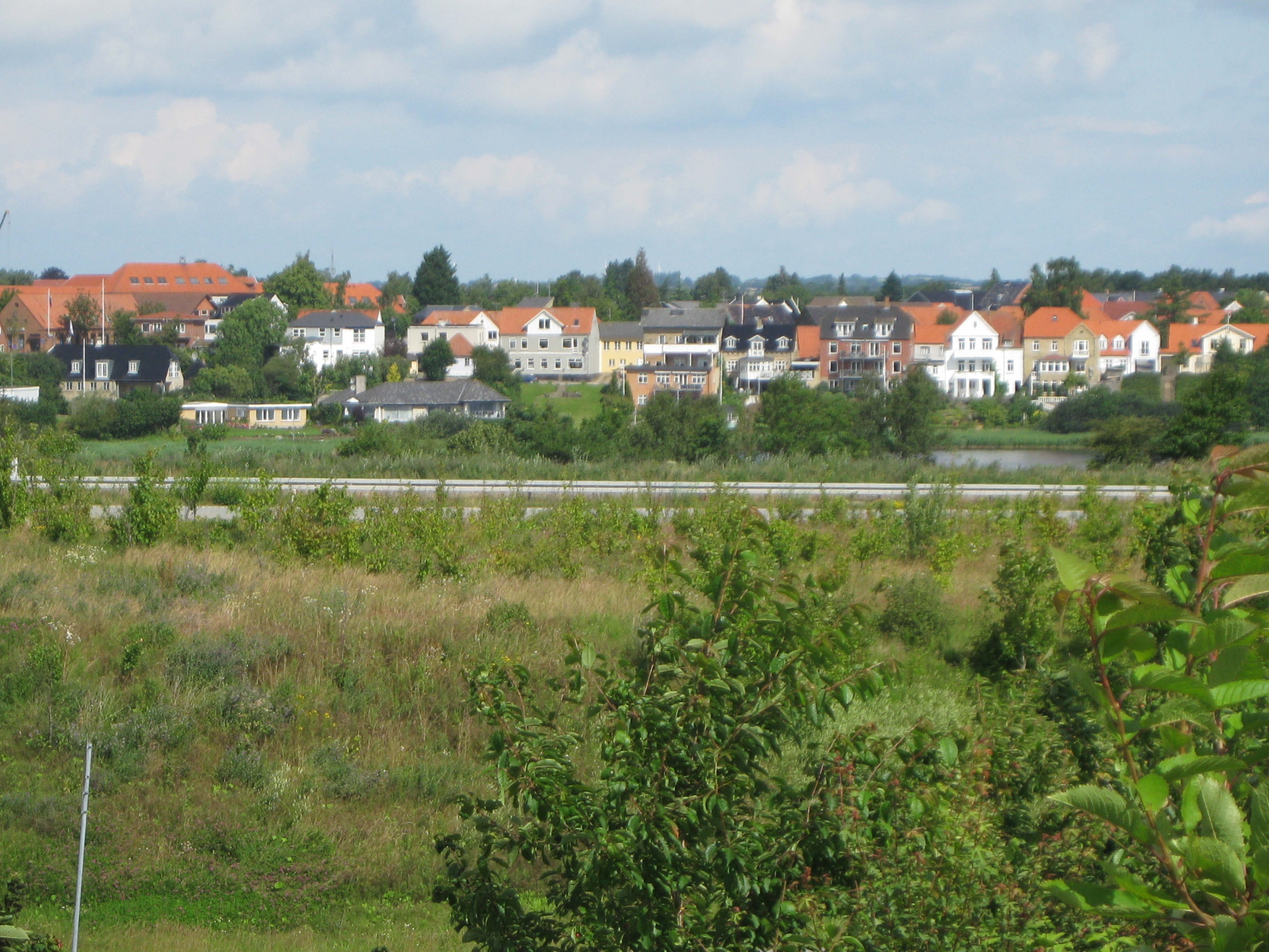 View at the small town "Augustenborg". The town is located at the island "Als" nearby Southern Jutland in south Denmark.